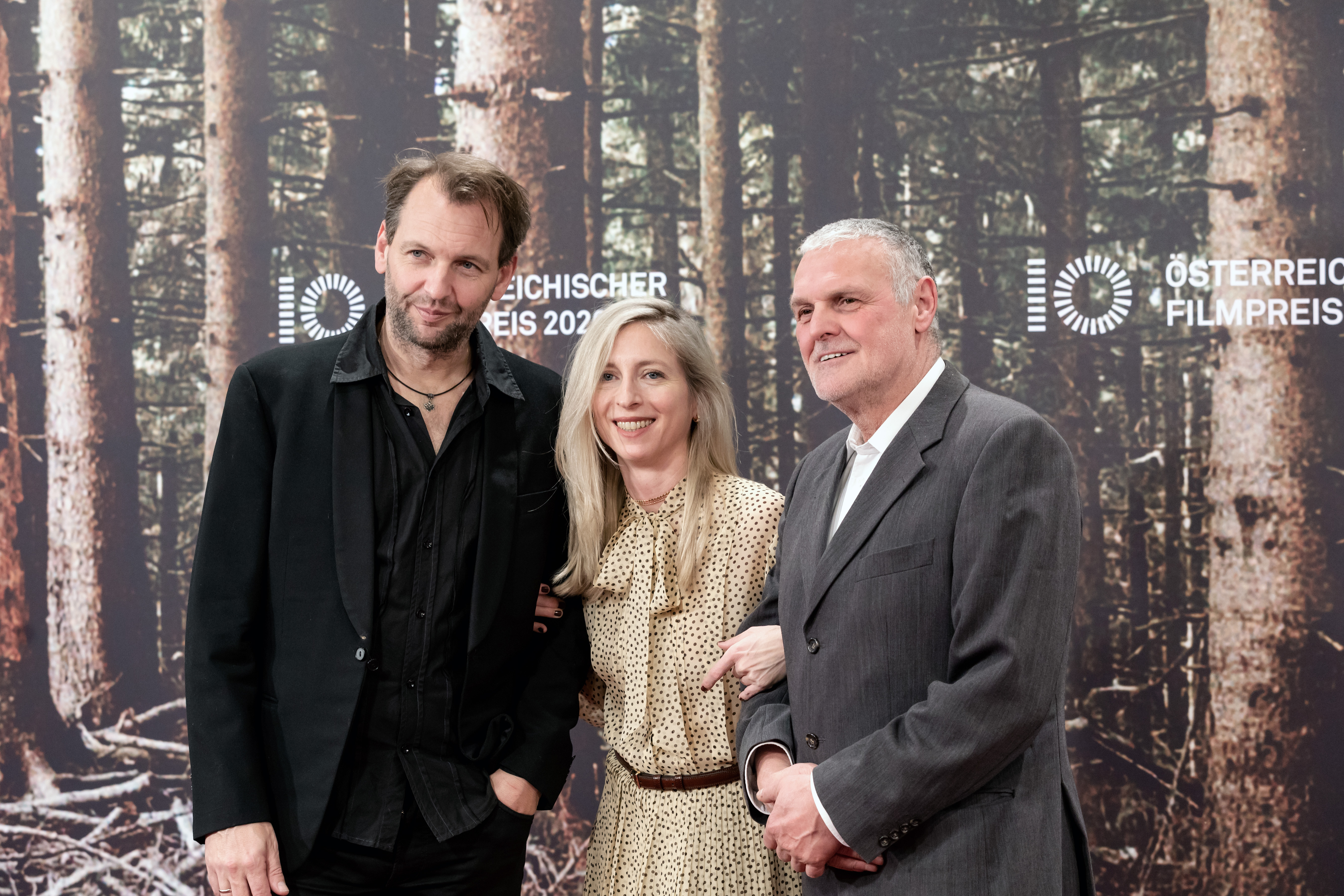 Martin Gschlacht, Jessica Hausner and Bruno Wagner (Little Joe) at the Austrian Film Awards 2020 (Auditorium Grafenegg at Grafenegg Castle, Lower Austria,Austria).